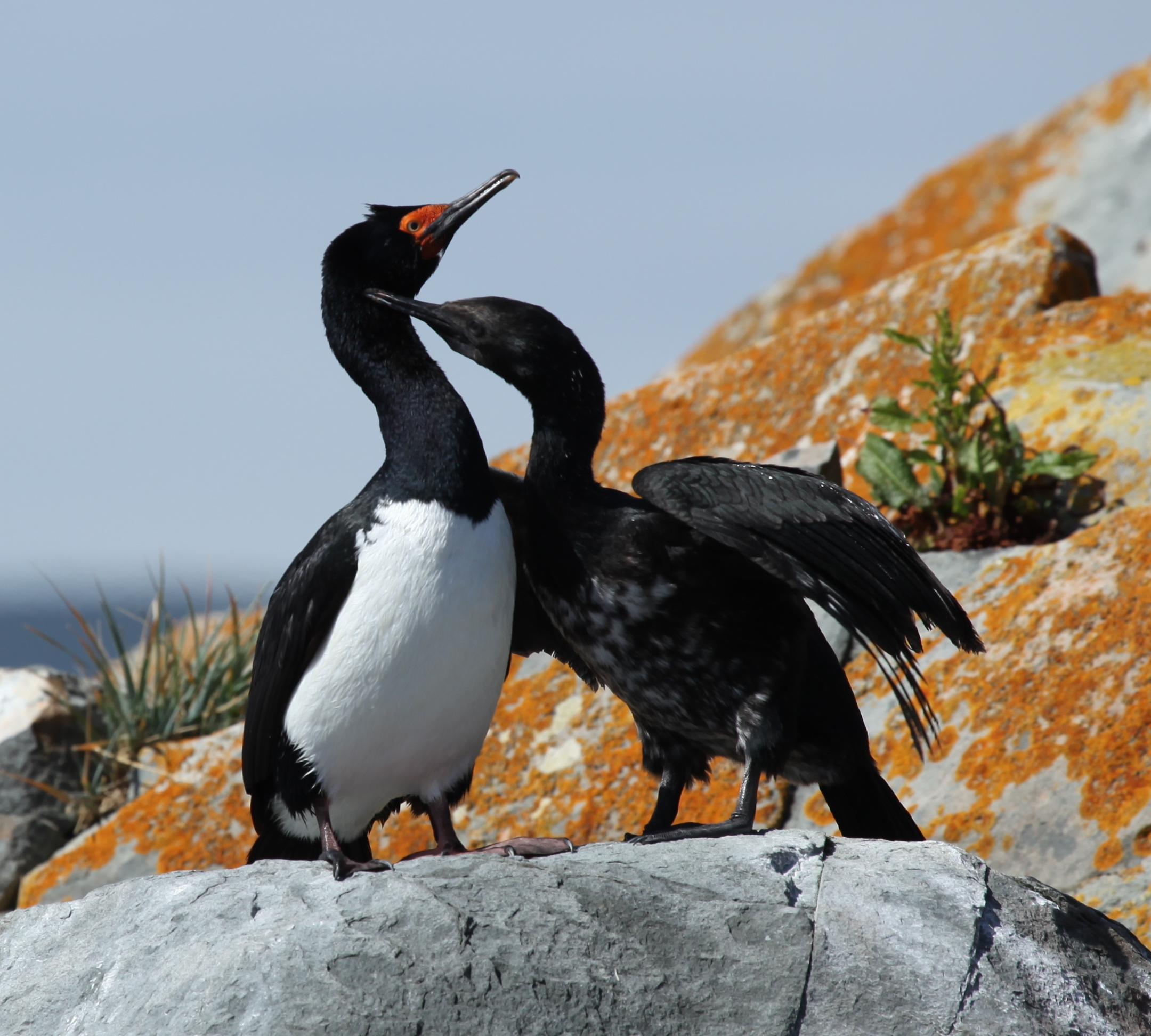 Photographed in the Beagle Channel near Ushuaia, Argentina.